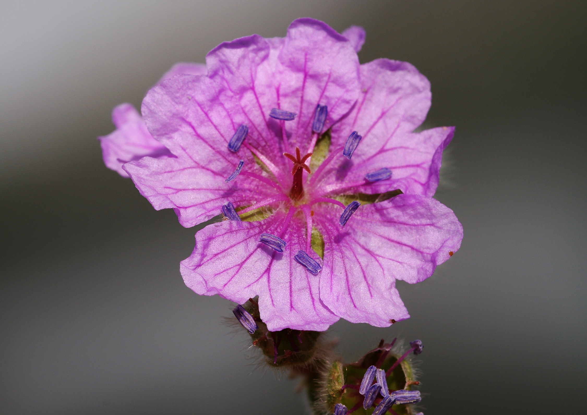 Bulbous Crane's-Bill (Geranium tuberosum). Bolkar Mountains, Çamlıyayla - Mersin, Turkey.